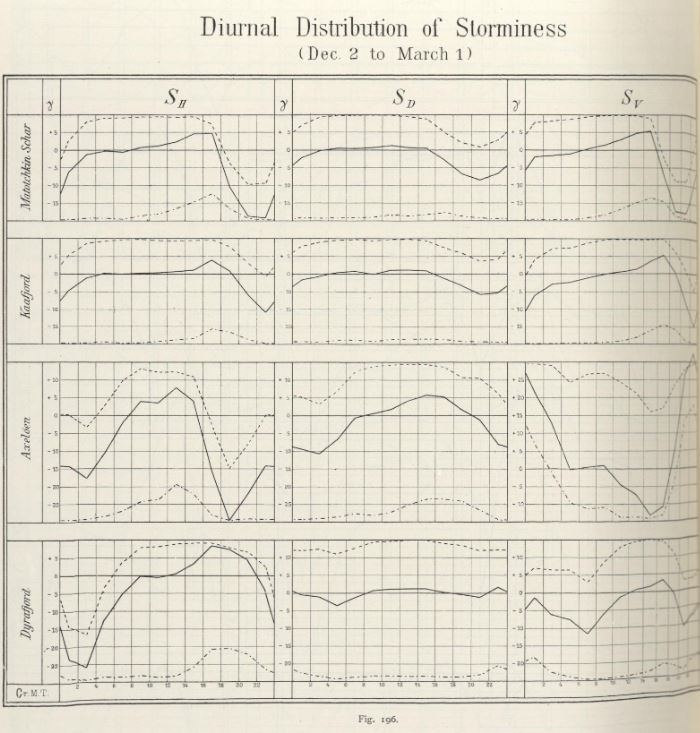 Magnetic storm charts measured at the same time from four observation sites, in conjunction with The Norwegian Aurora Polaris Expedition 1902-1903. From the book, The Norwegian Aurora Polaris Expedition 1902-1903, Volume 1: On the Cause of Magnetic Storms and The Origin of Terrestrial Magnetism, Section 2. Chapter VI: p. 556